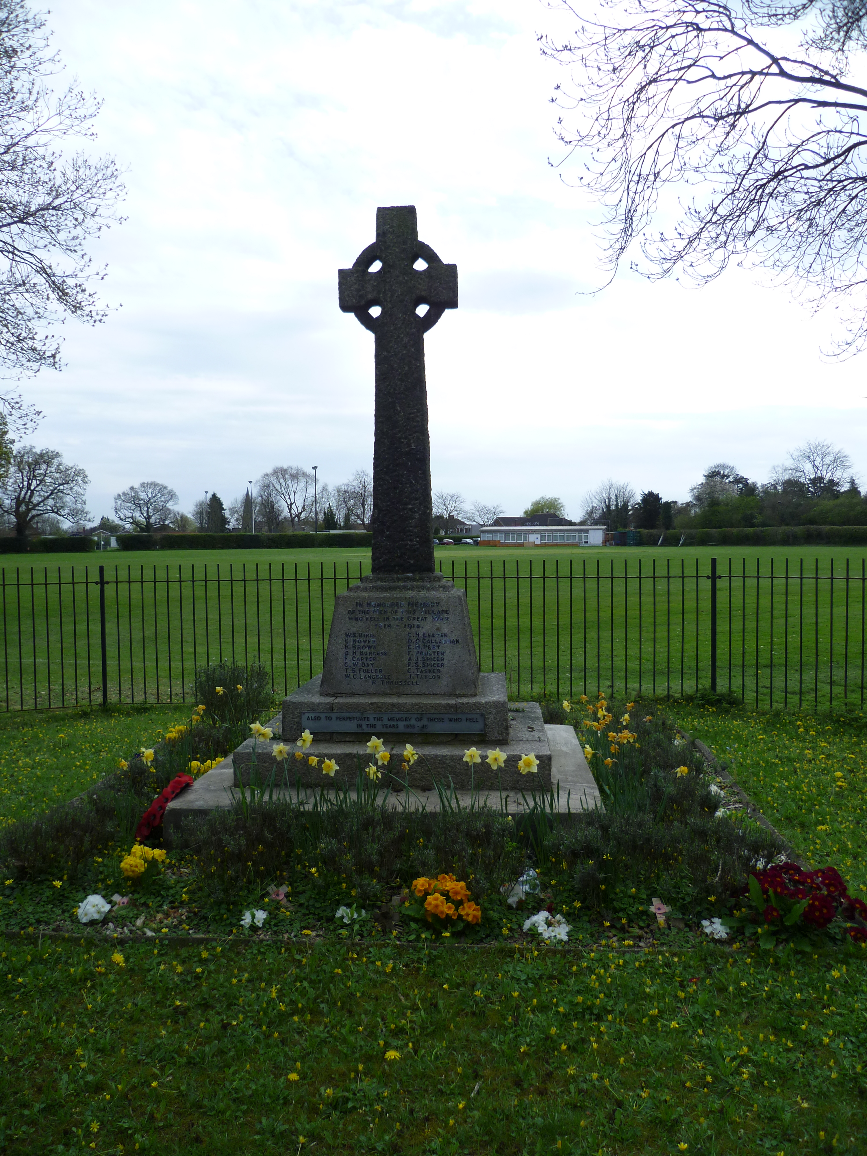 Cockfosters